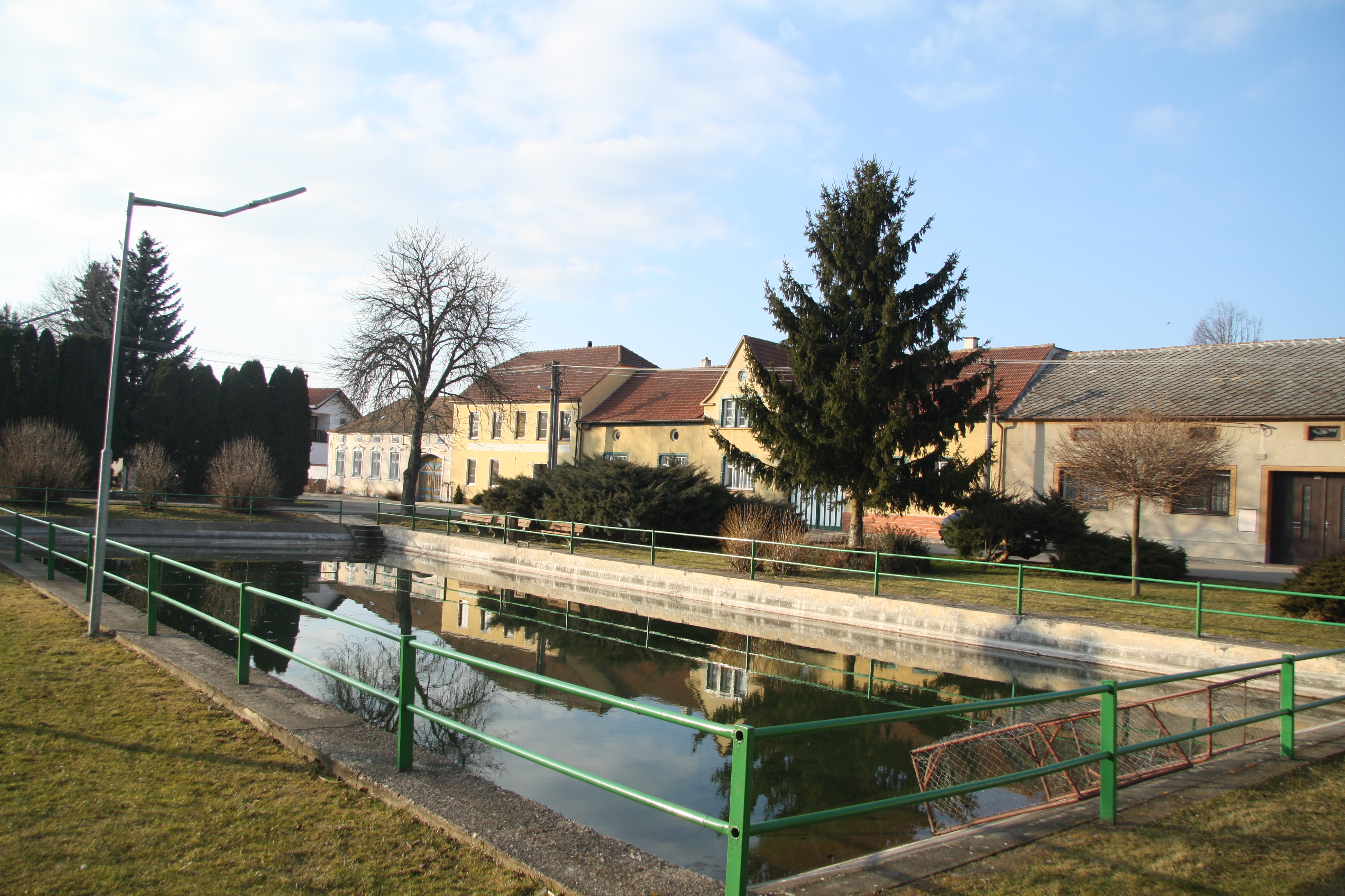 Center of Mladoňovice (Třebíč District).